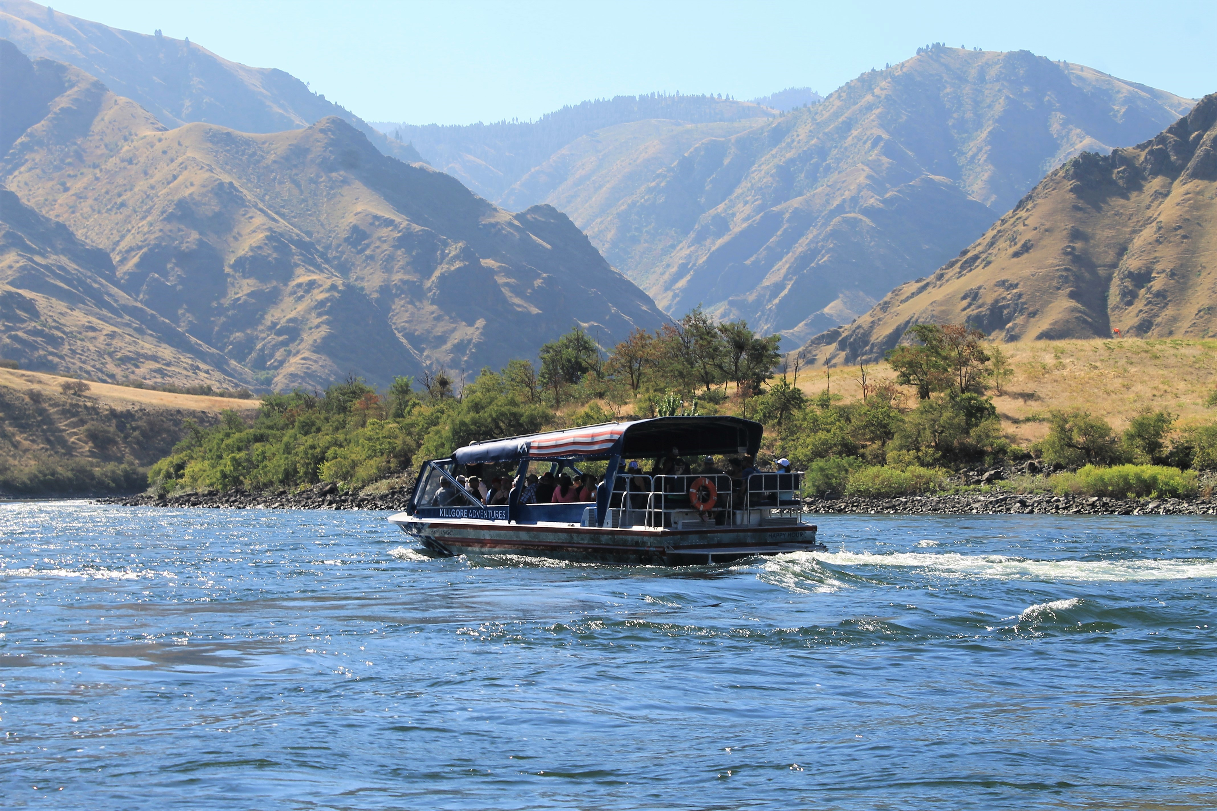 This is a jet boat departing from Pittsburg Landing for a day tour.